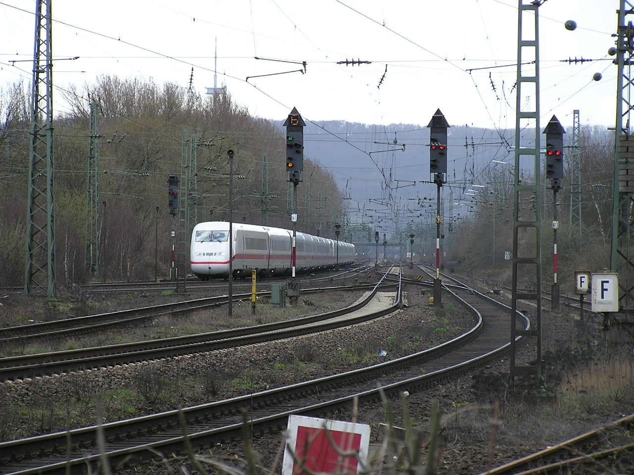 Railway on german railway track Cöln-mindener-eisenbahn near Minden.